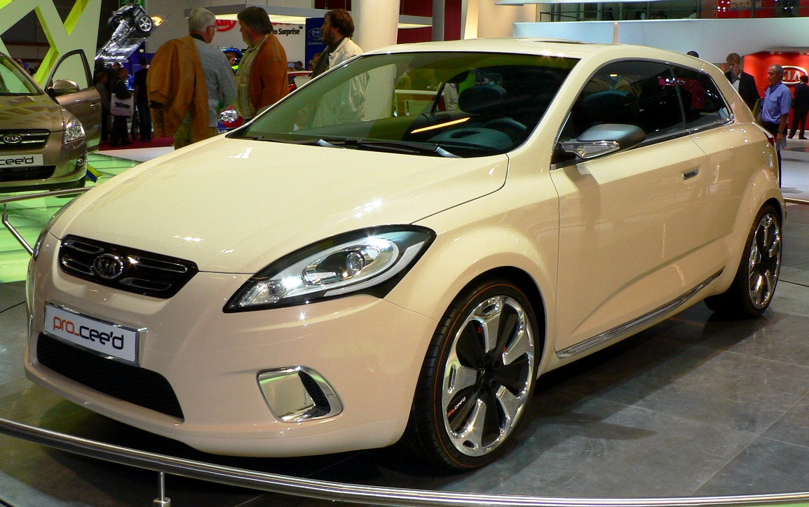 Kia Pro cee'd at the 2006 Paris Motor Show